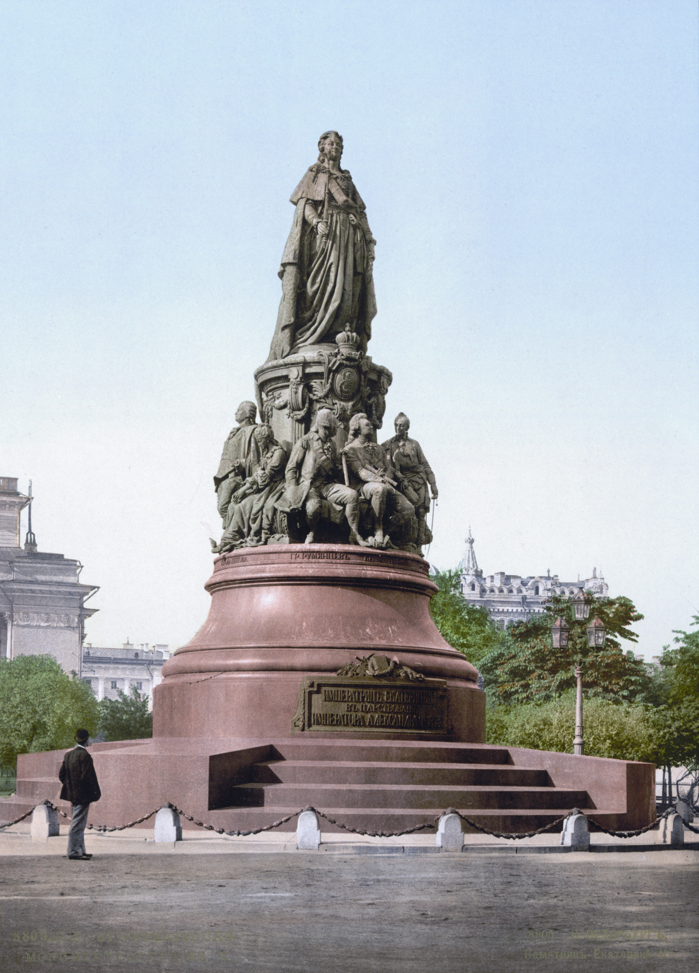 The Monument of Catherine II in St Petersburg (Russia). 19th-century photochrome print (1890—1900)